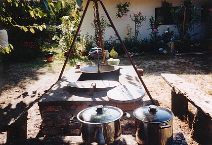 Outdoor stove in Hungary, with pots covering the fire-holes. The pot hanging from the irod tripod can be used to cook all types of goulash. The shallow dish in front of this might be used for frying schnitzel, for example. The lid can be seen to the side. The two saucepans in the foreground might contain, for example, noodles or gnocchi. photo made by User:Magellan at Dec 2005